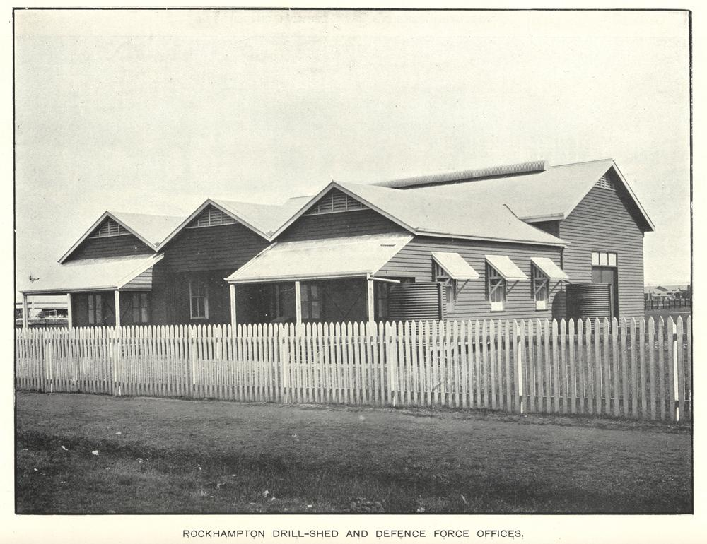 Rockhampton drill shed and defence force offices. Timber hall for defence force officers and men.